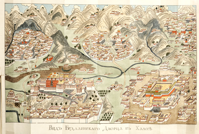 Map of Lhasa